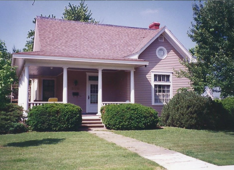 389 South Adams Avenue